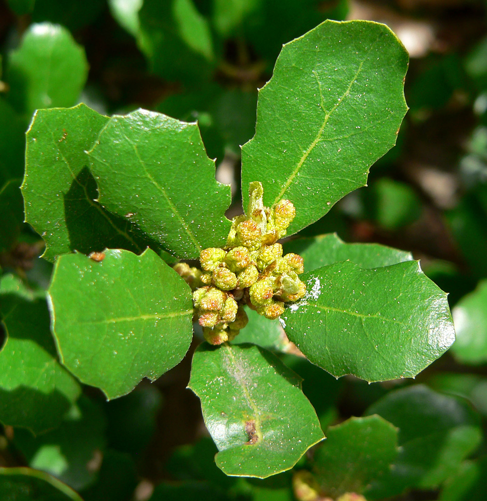 Photo of Quercus pacifica at the Regional Parks Botanic Garden, Berkeley, California